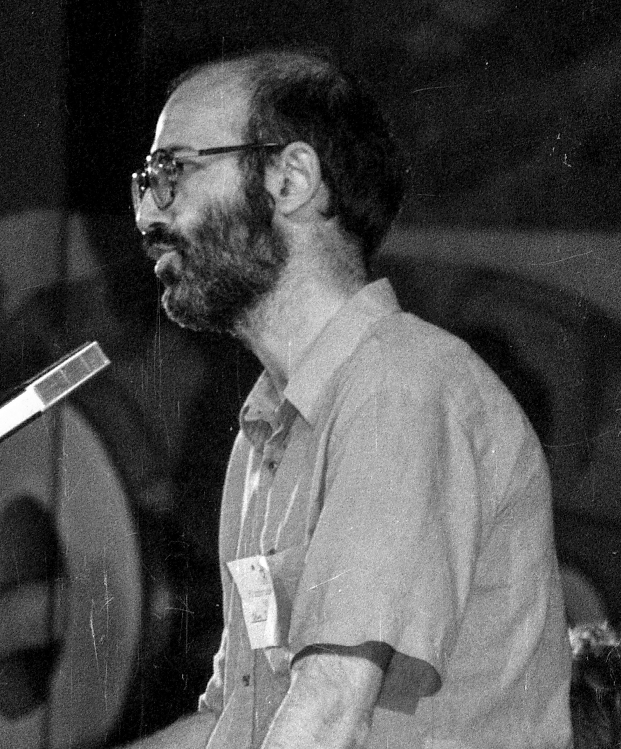 János Kis, a Hungarian philosopher, first leader of the Alliance of Free Democrats in 1989.